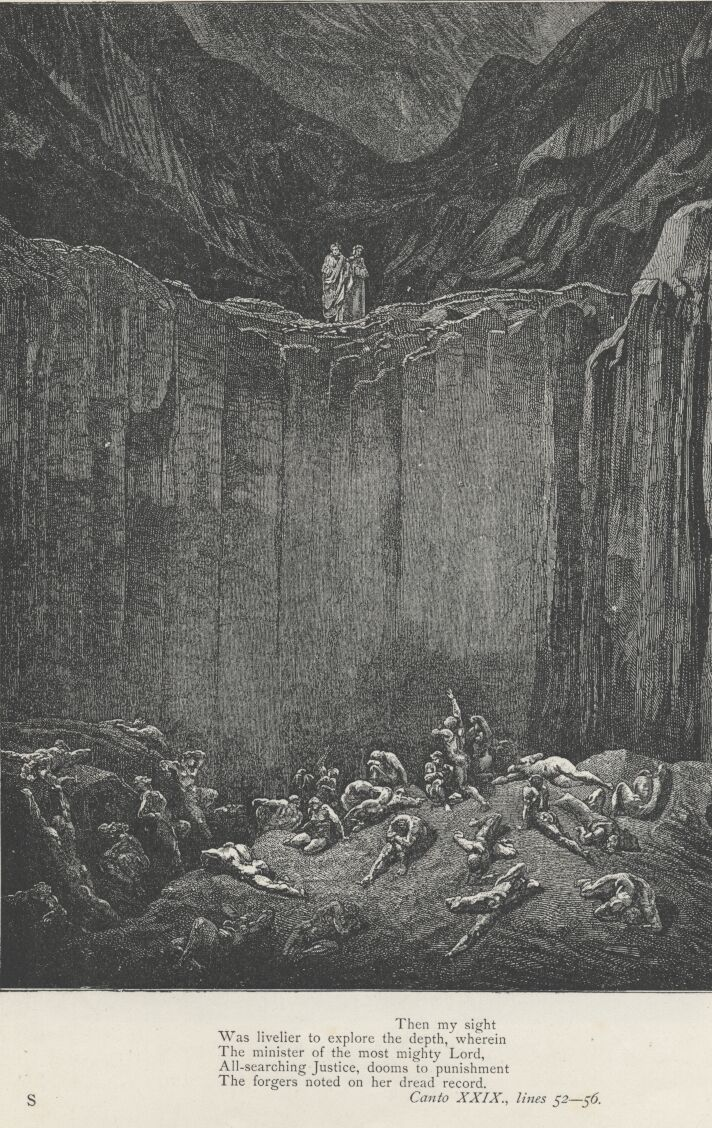 Illustration by Gustave Doré for The Divine Comedy by Dante, Illustrated, Hell, Volume 01, 1892